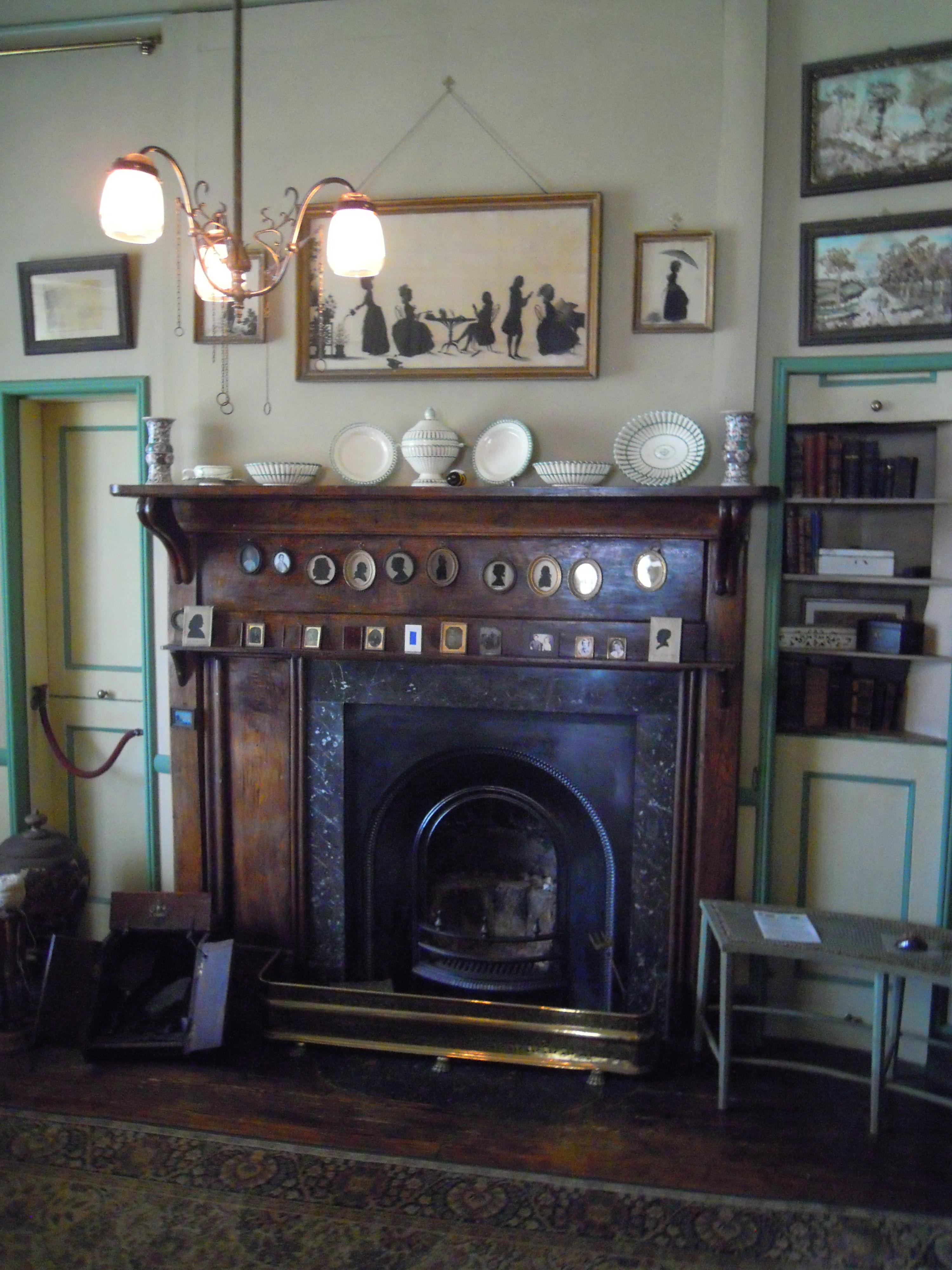 An ornate fireplace in a reception room at A La Ronde in Devon